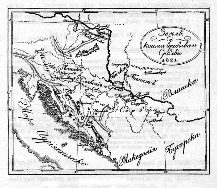 Second edition of the map called „Territories inhabited by Servians” from 1821. It forms a supplement to the book: „History of the Servian People, edited by Dimitrije Davidovic.” This map has originally appeared in Vienna in 1821, where it was published at the cost of the Serbian State. It was reprinted in Belgrade after the dead of Davidovic in 1846 and in 1848. It shows the ethnological boundaries of the Serbian people.